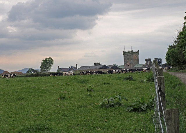 Rosneath Home Farm Milking time.